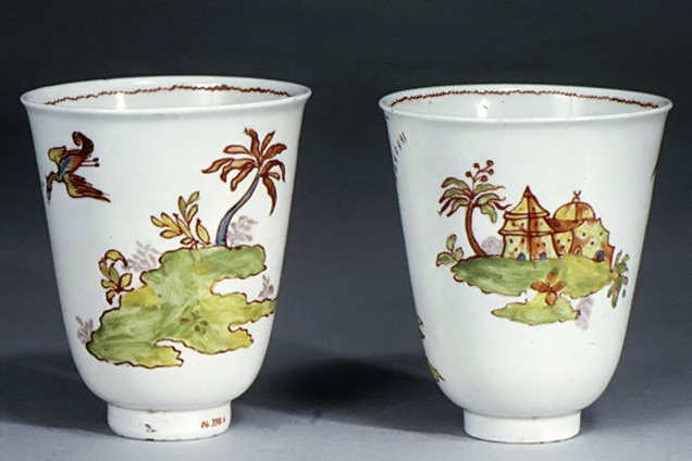 Italian, Venice; Beakers; Ceramics-Porcelain